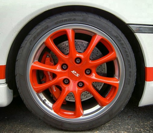 Porsche 996 GT3 RS (2003) red rim with Pirelli P Zero Corsa tires